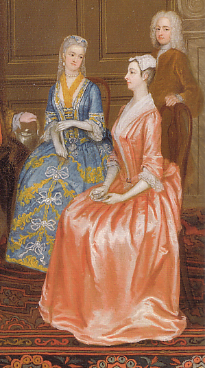 A Tea Party at Lord Harrington's (detail)